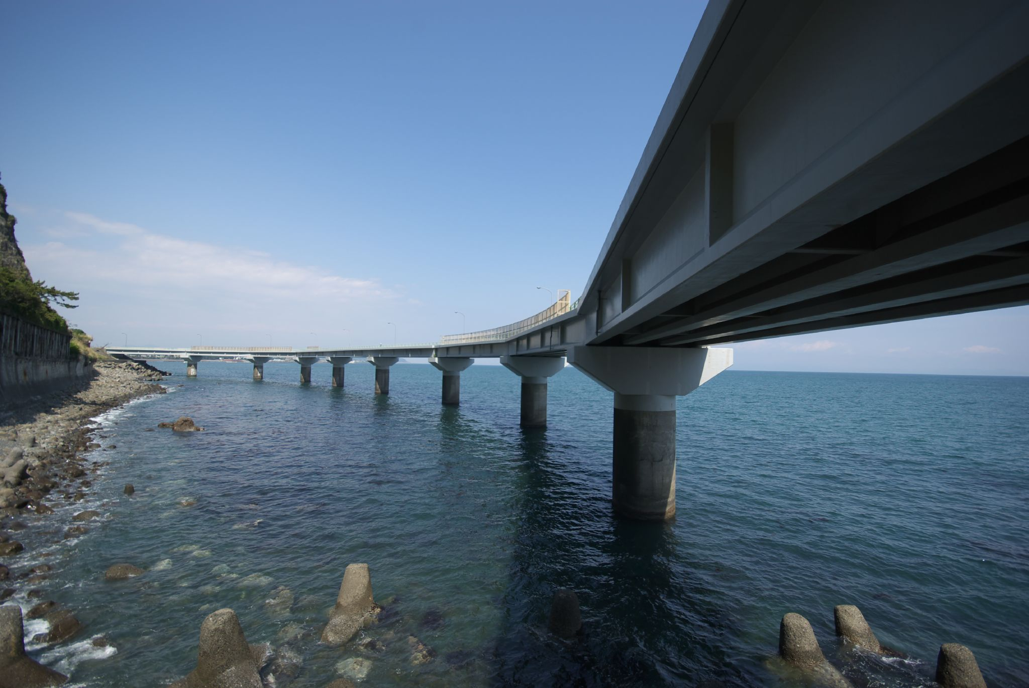 Sekibe-Kaijō-Bridge in Suruga-ku, Shizuoka. It was built to detour the Ōkuzure Coast to avoid falling rocks.